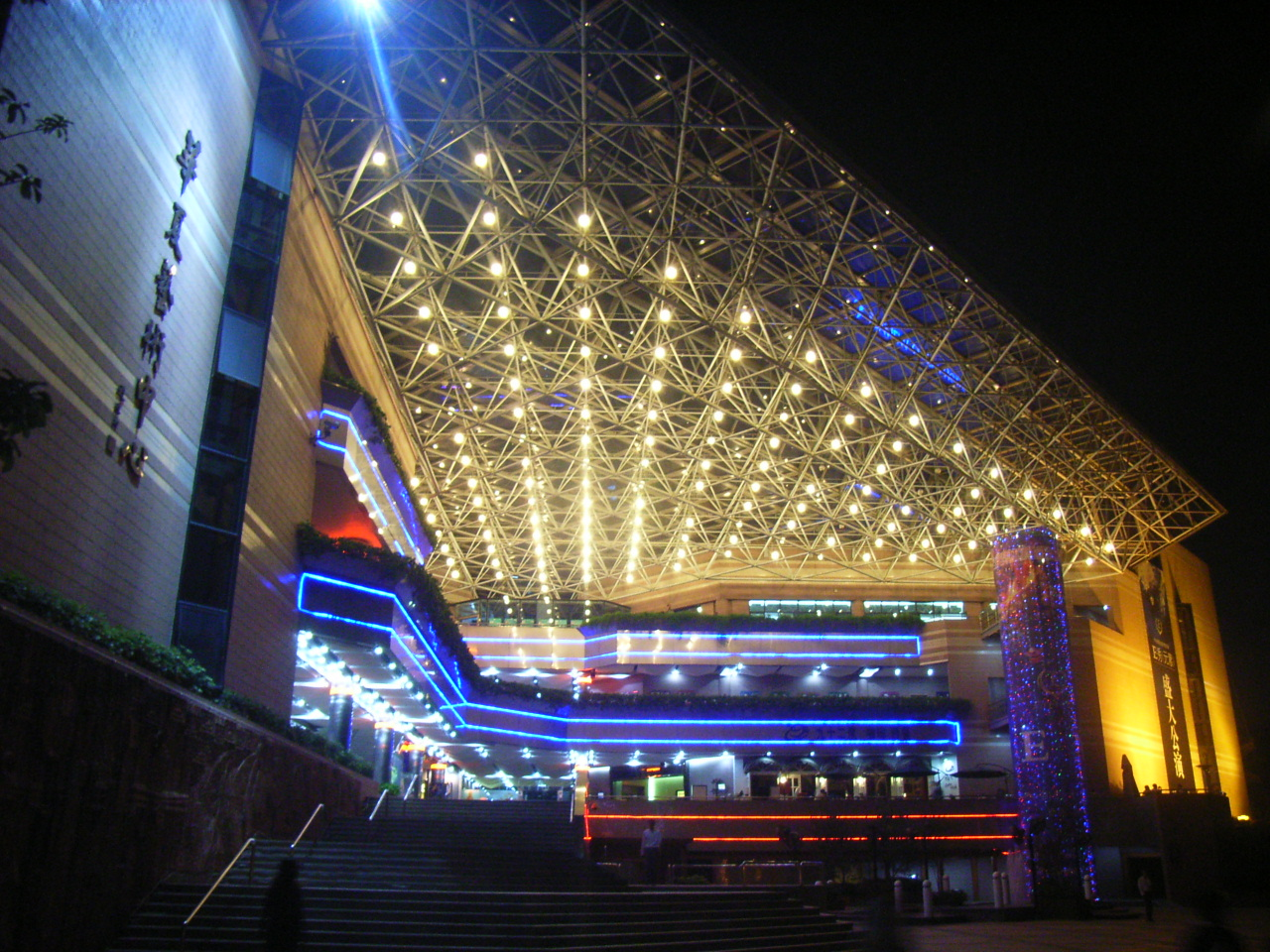 深圳zh:華僑城 華僑城集團管理 華夏藝術中心